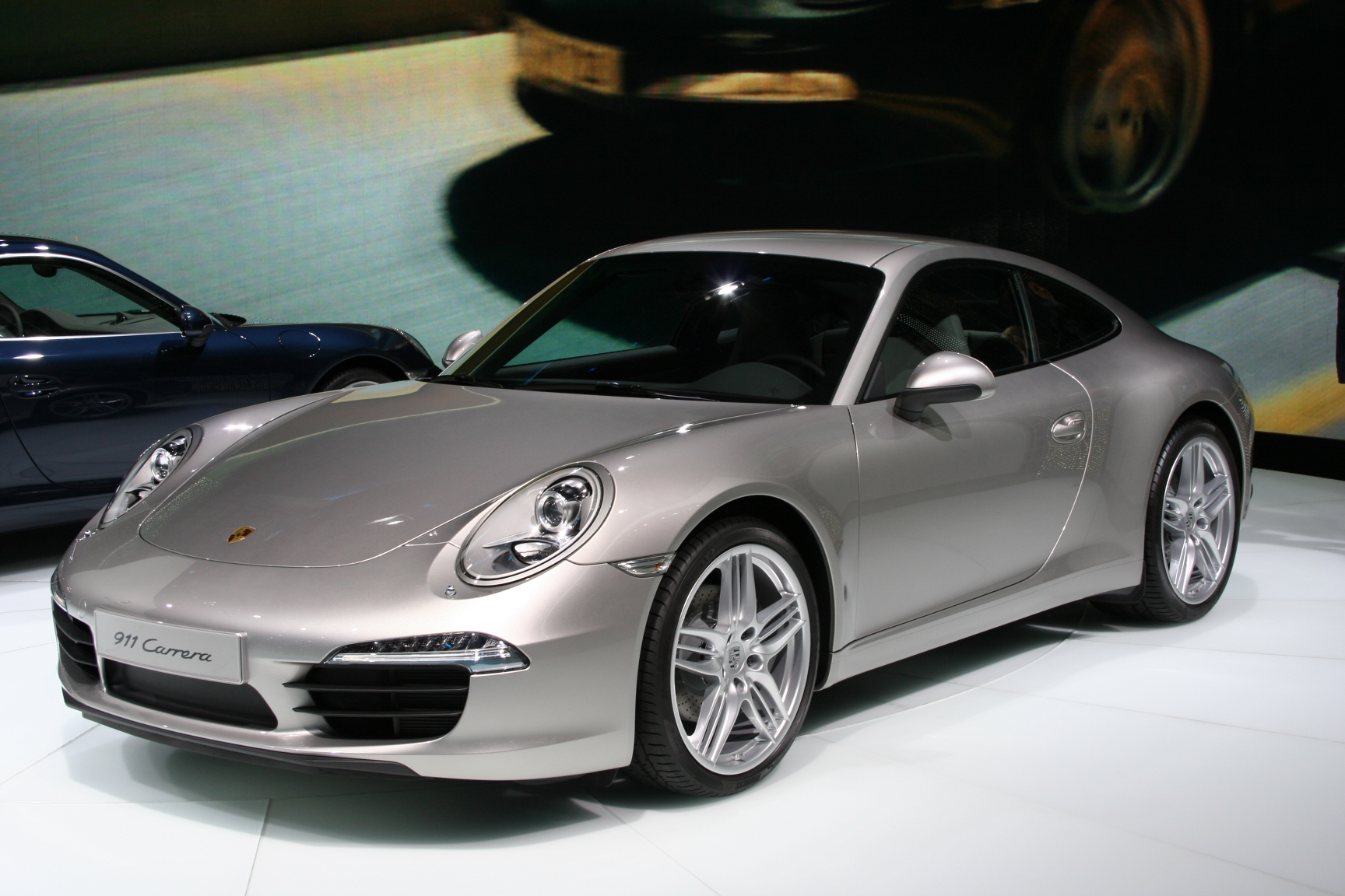 Silver Porsche 991 (911 Carrera) at IAA 2011. View: front left